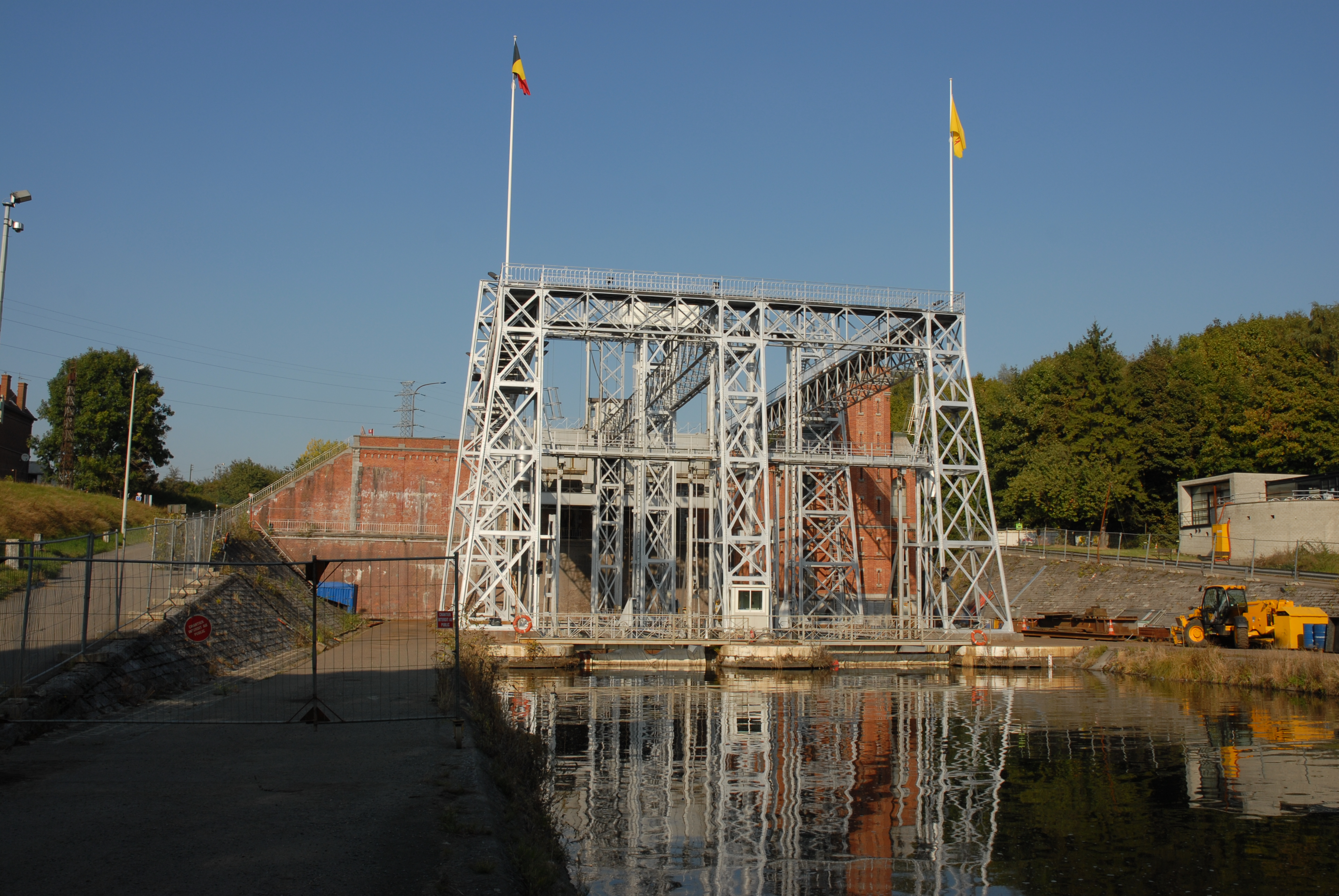 Old boat lift no. 1 (Houdeng-Goegnies) of the Canal du Centre, Belgium. Seen in September 2009.